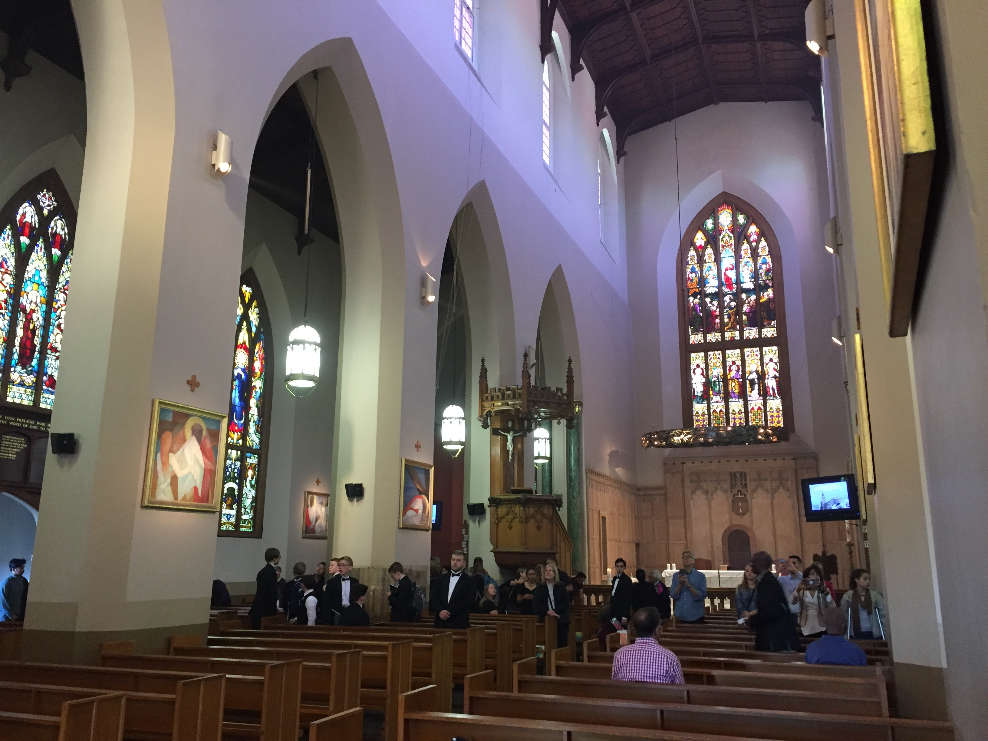 Interior of St. Mary's Cathedral in Cape Town, South Africa in 2018